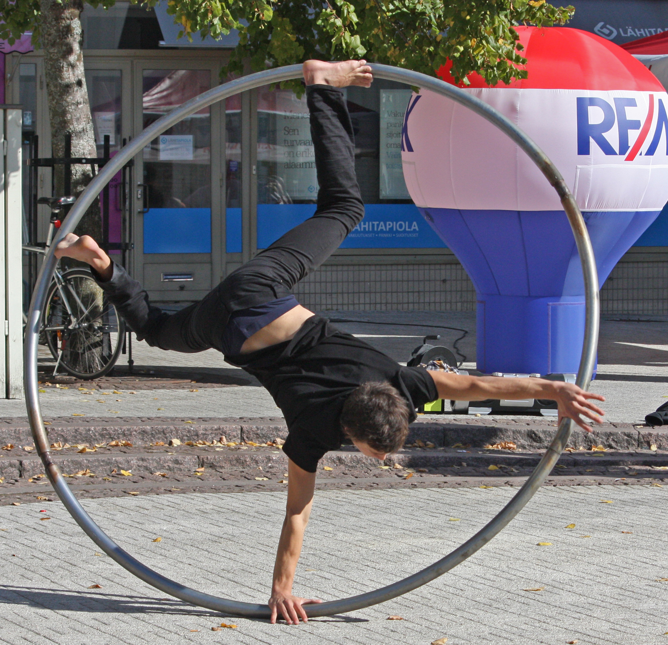 Rony Addadi with his Cyr Wheel was performing on Kauppakaari Street during The Circus Festival 2013 in Kerava.